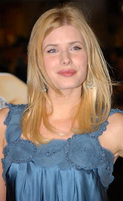 Actress Jud Tylor at the premiere of "27 Dresses"